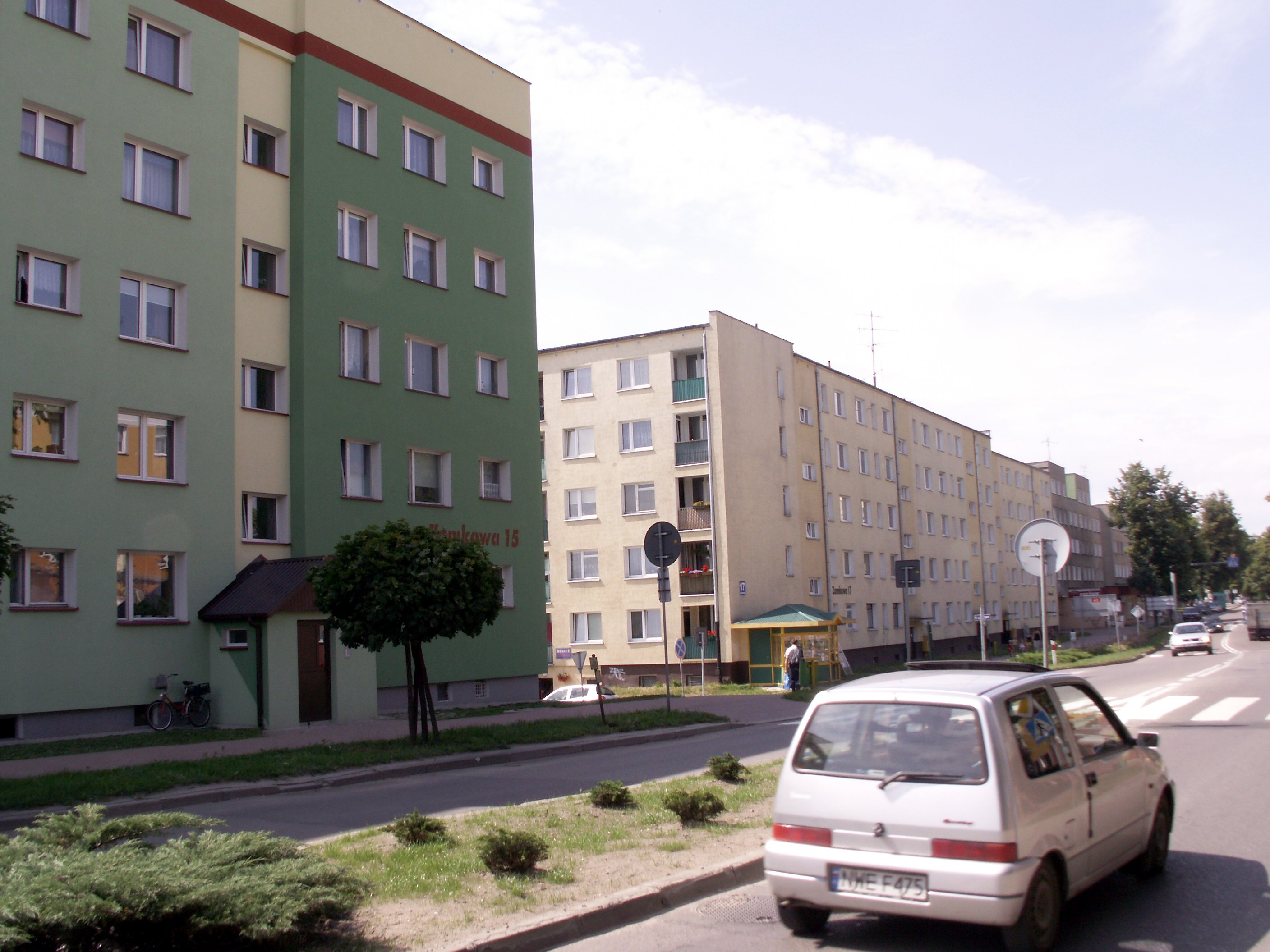 Zamkowa Street in Węgorzewo